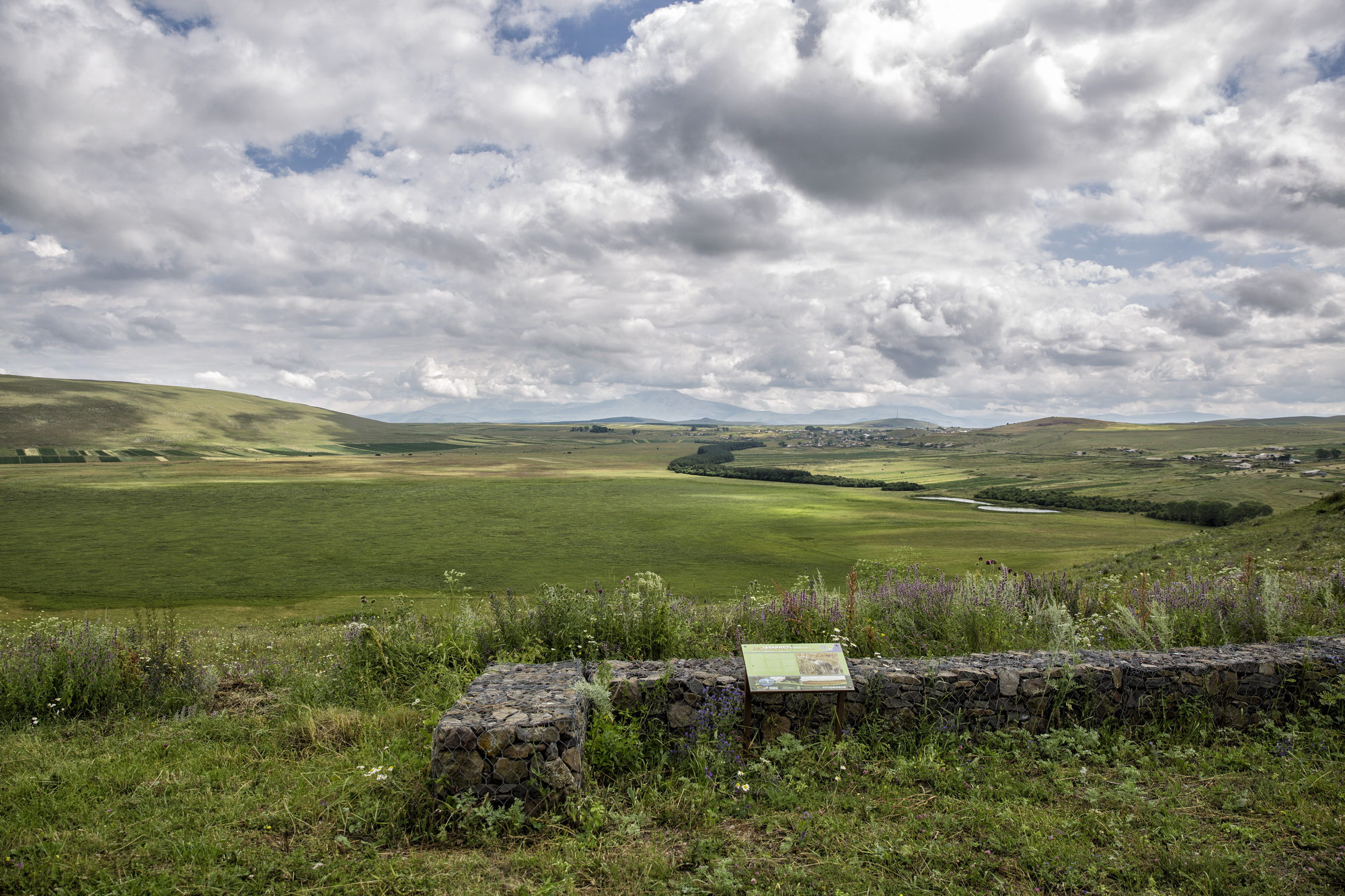 Javakheti Protected Areas was established in 2011. It includes Javakheti National Park, Kartsakhi Managed Reserve, Sulda Managed Reserve, Khanchali Managed Reserve, Bugdasheni Managed Reserve and Madatapa Managed Reserve. Javakheti Protected Areas include Municipalities of Akhalqalaqi and Ninotsminda. There are lots of lakes on Javakheti Plateau, including the biggest one – Lake Paravani. The highest point of Javakheti is Mount Great Abuli, with a height of 3,300 meters above sea level. Javakheti upland is the coldest places among settlements. It is characterized by dry continental climate, while the average annual temperature is quite low. In winter Javakheti lakes freeze for a long time